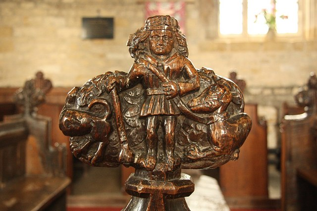 Nicholas de Crioll ? Detail of one of the mid-15th century poppyhead bench ends in St.Botolph & St.John the Baptist's church, of a late Medieval nobleman with stick and two dogs, popularly thought to be Nicholas de Crioll, patron of Croxton Abbey and the origin of the Kerrial (Crioll) part of the village name.